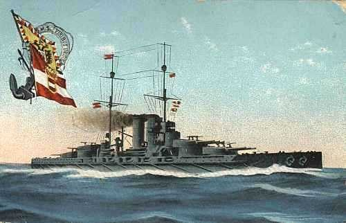 A post card depicting SMS Viribus Unitis at sea.